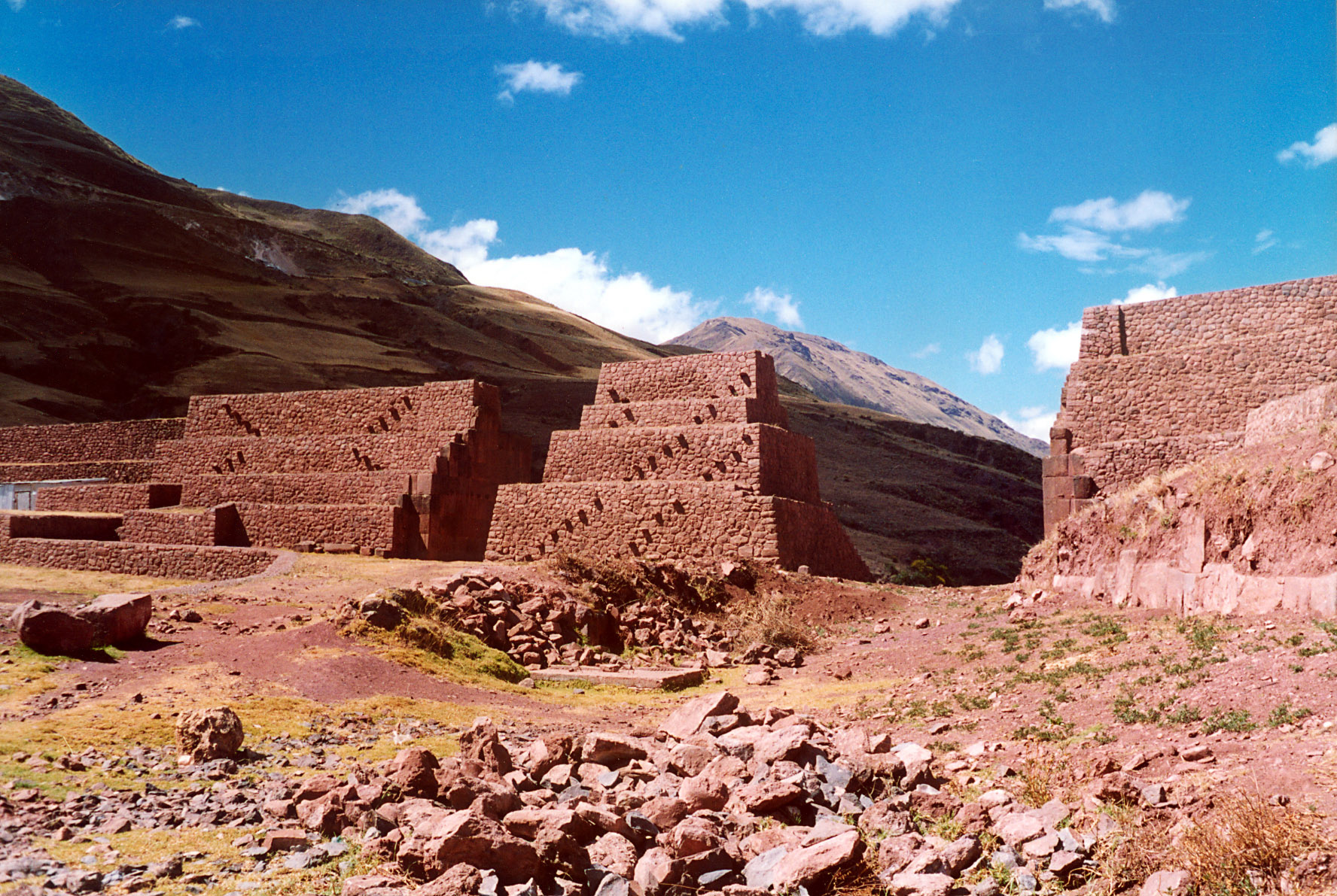 Rumicolca, 31 km SE from Cusco, Peru. The photo was taken by Håkan Svensson (Xauxa) in June 2002.